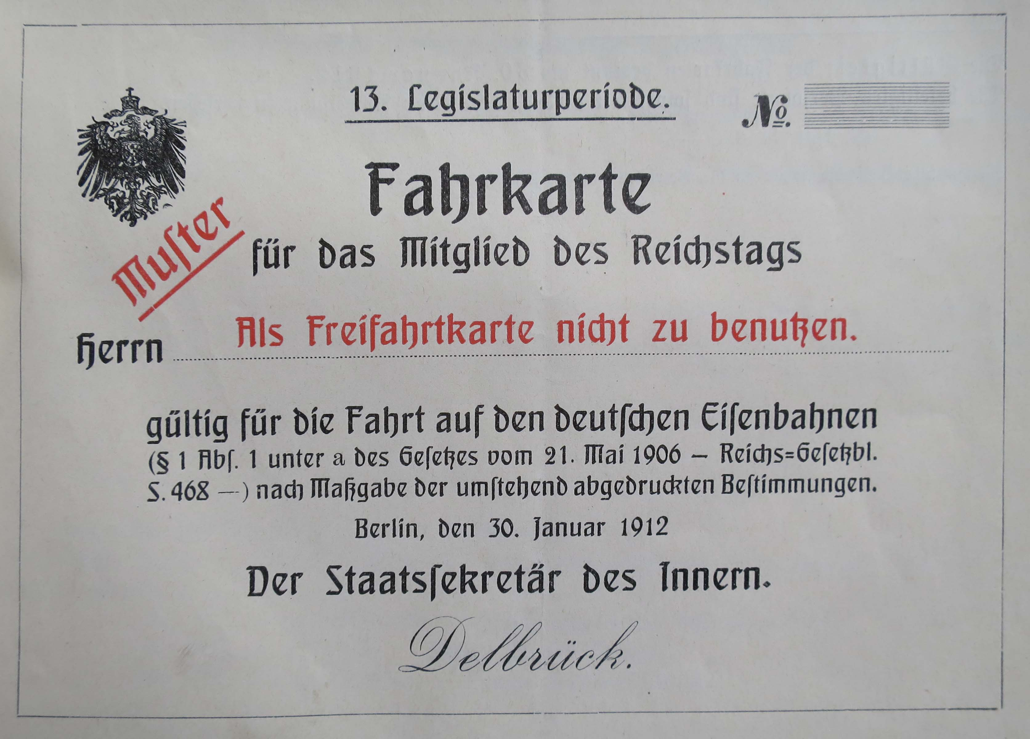 Sample of a rail ticket for free rides for members of the German Parliament (Deutscher Reichstag), 1912